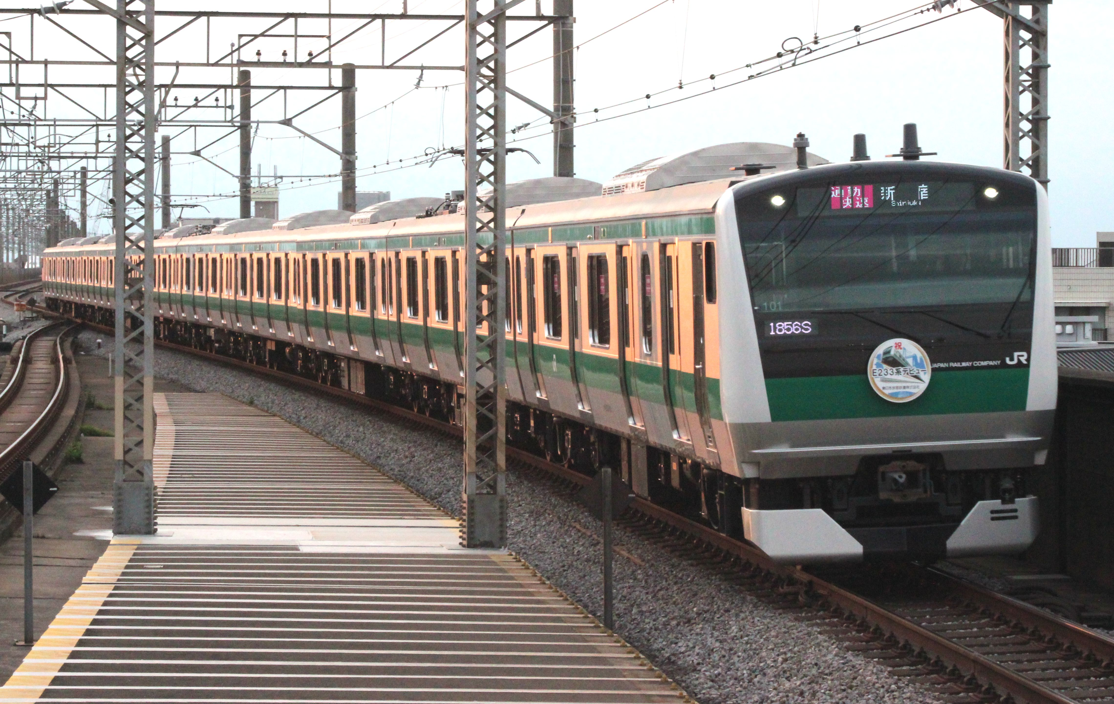 JR East E233-7000 series EMU set 101 on a Saikyo Line Shinjuku-bound "Commuter Rapid" service (train number 1856S) approaching Musashi-Urawa Station